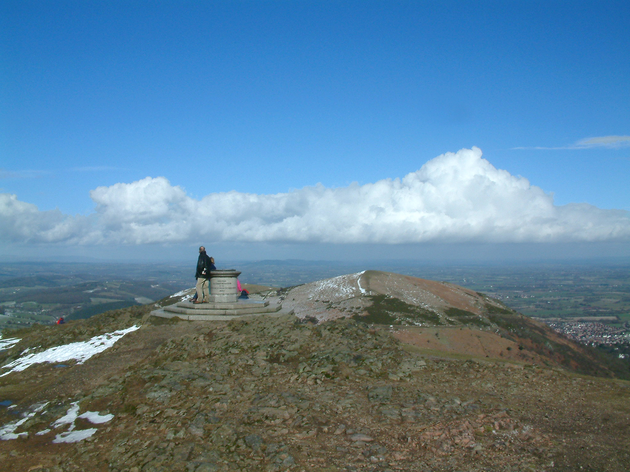 The viewfinder on the summit of Worcestershire Beacon, high point of the Malvern Hills, with North Hill beyond. Photograph by Stephen Dawson, 13 March 2004.